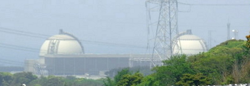 Genkai Nuclear Power Plant